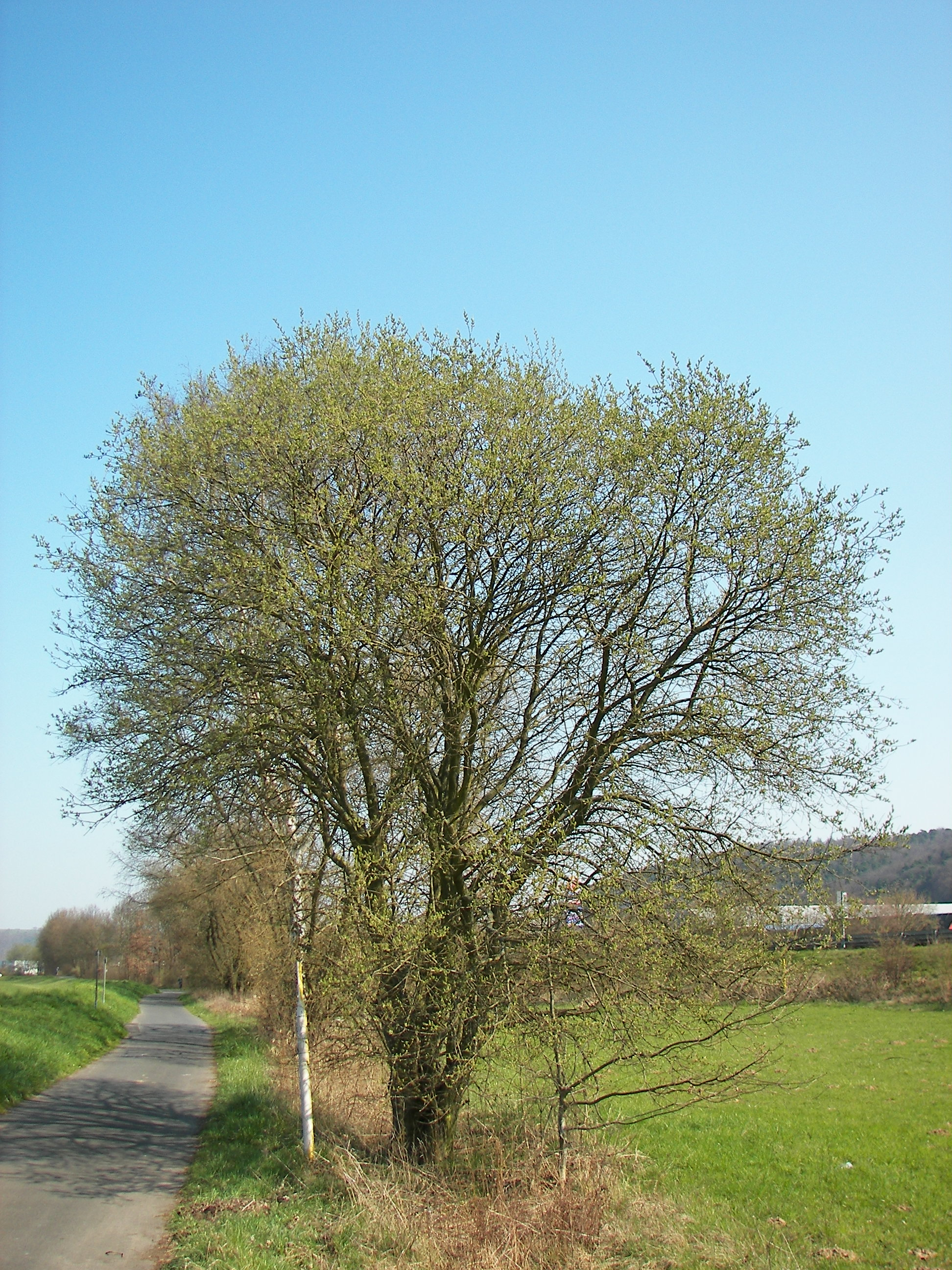 Goat Willow (Salix caprea)